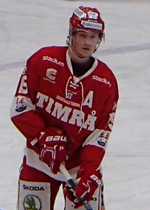 Ice hockey player Erik Karlsson of Timrå IK in NHK Arena, Timrå, Sweden